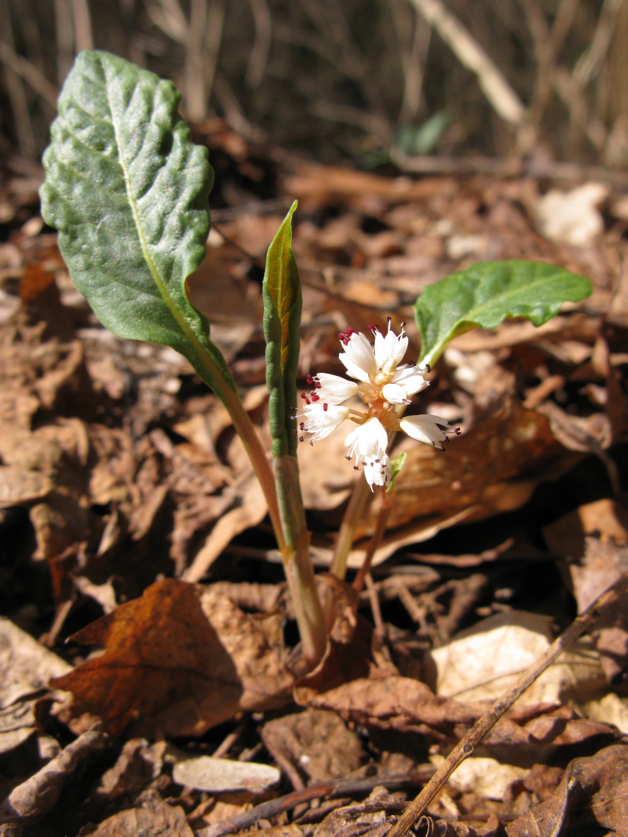 Bistorta tenuicaulis, Fukushima pref., Japan